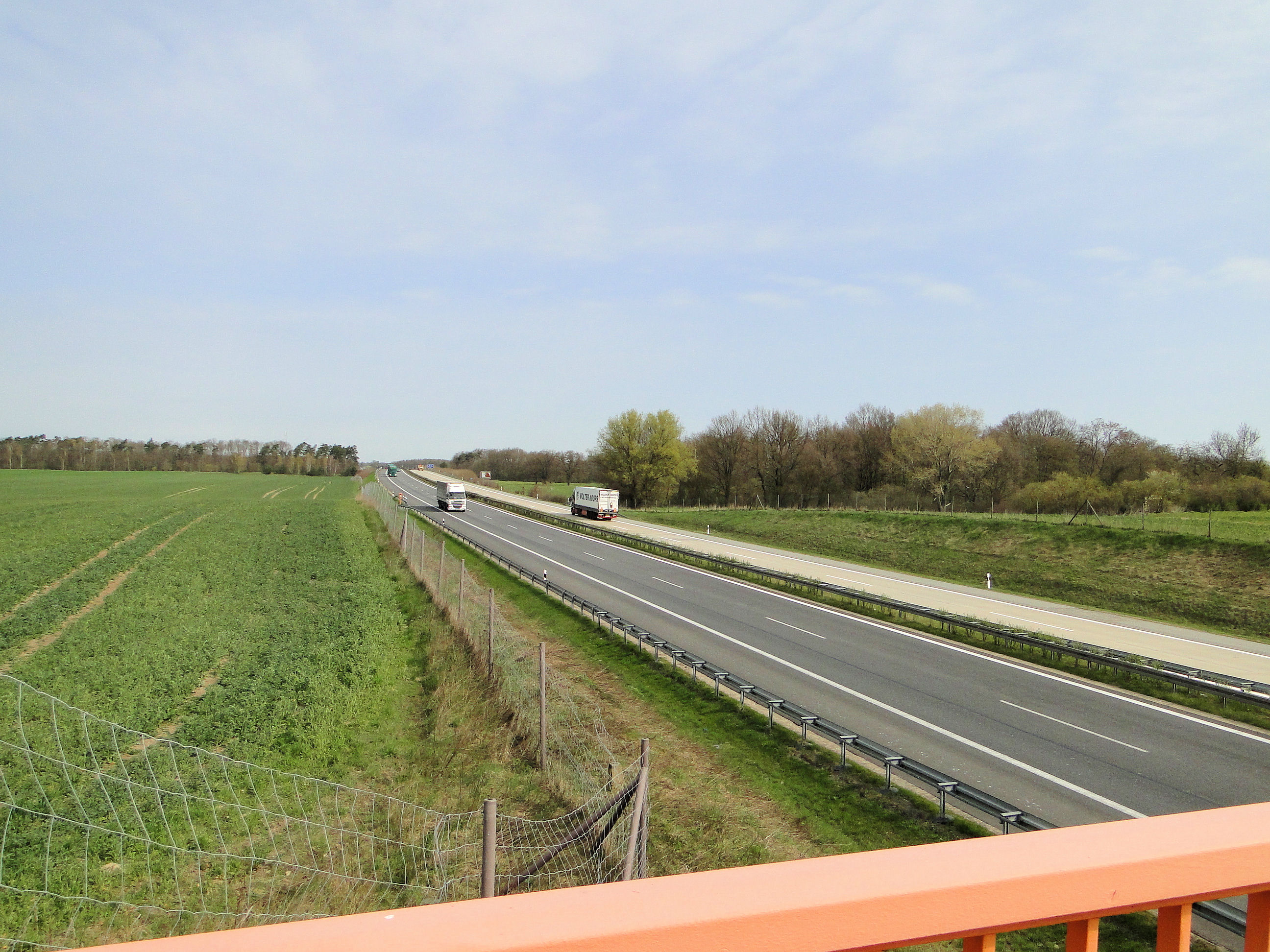 Highway A 19 in Bütow, disctrict Müritz, Mecklenburg-Vorpommern, Germany